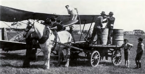 Flight Lieutenant F.R.W. Scherger refuels his Bulldog (A 12-1) at Nhill (Vic) on 15 October 1931, on his way to South Australia for the Aero Club pageant. A gale was blowing when he landed at Nhill, causing him to stand the machine on its nose—though with no more damage than slight bending of the right lower wingtip and engine bearer plate. Scherger completed the flight to Adelaide, won the aerial derby (against another Bulldog) with a speed of 160.98 mph, and returned to Point Cook without any further trouble.